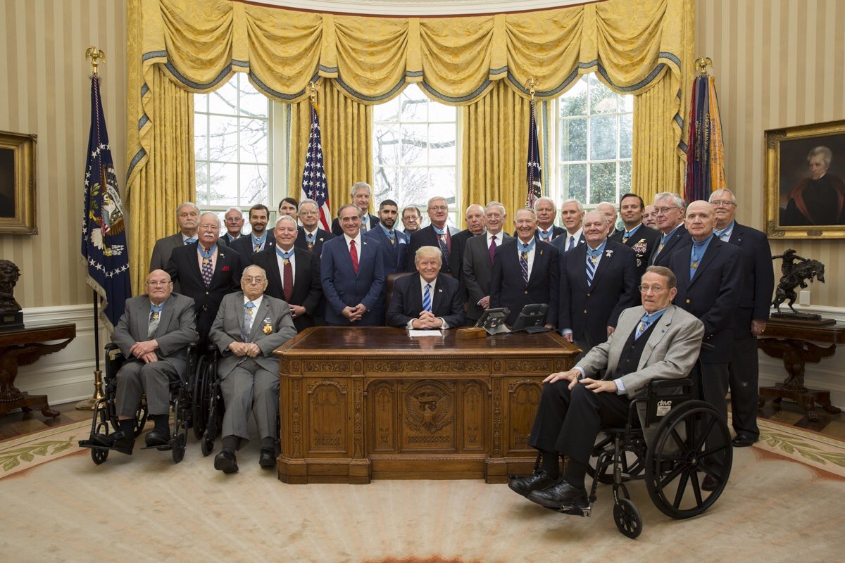 President Donald Trump and Vice President Mike Pence meet with Medal of Honor Recipients in the Oval Office of the White House, Friday, March 24, 2017.